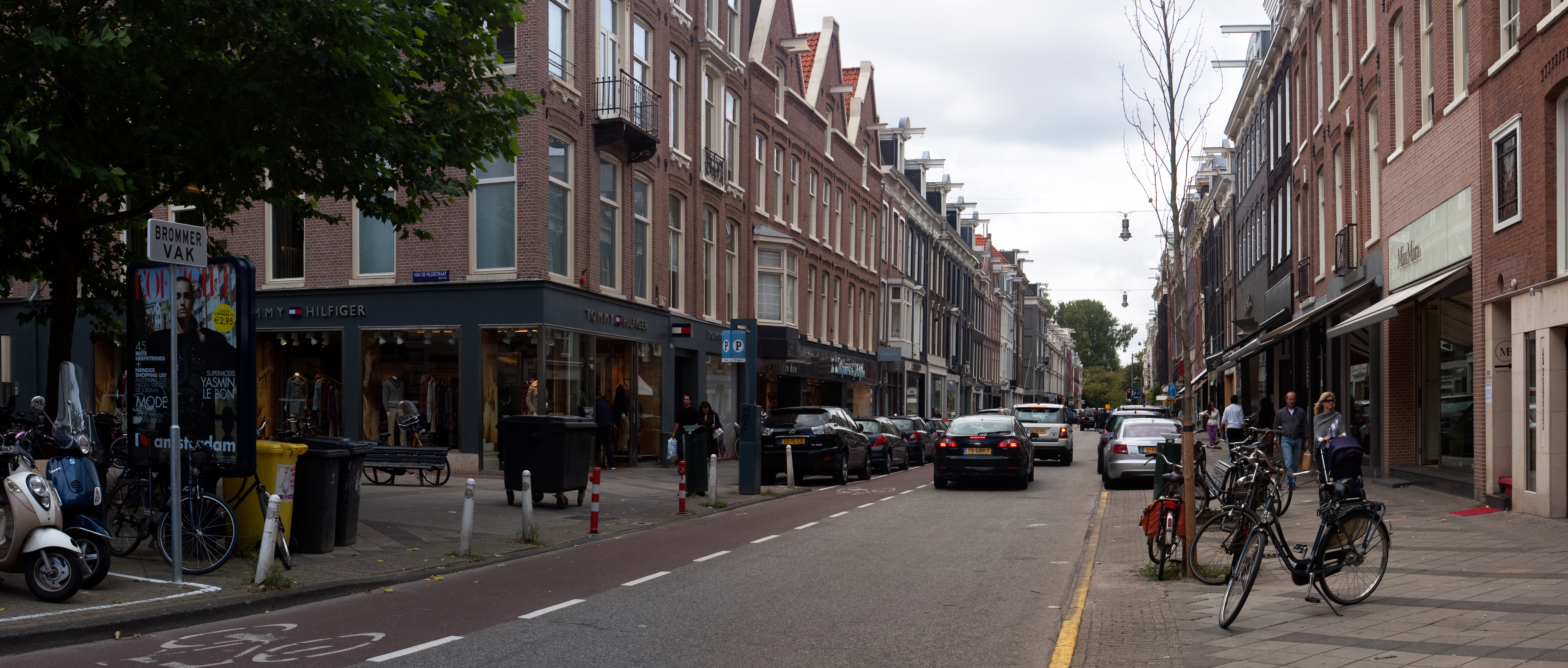 The P.C. Hooftstraat is a shopping street in Amsterdam, the Netherlands, which runs from the Stadhouderskade to the Vondelpark. It is the location of many high end luxury shops of international renowned brands such as D&G, Cartier and Valentino. The street is named after the Dutch historian, poet and playwright Pieter Corneliszoon Hooft.